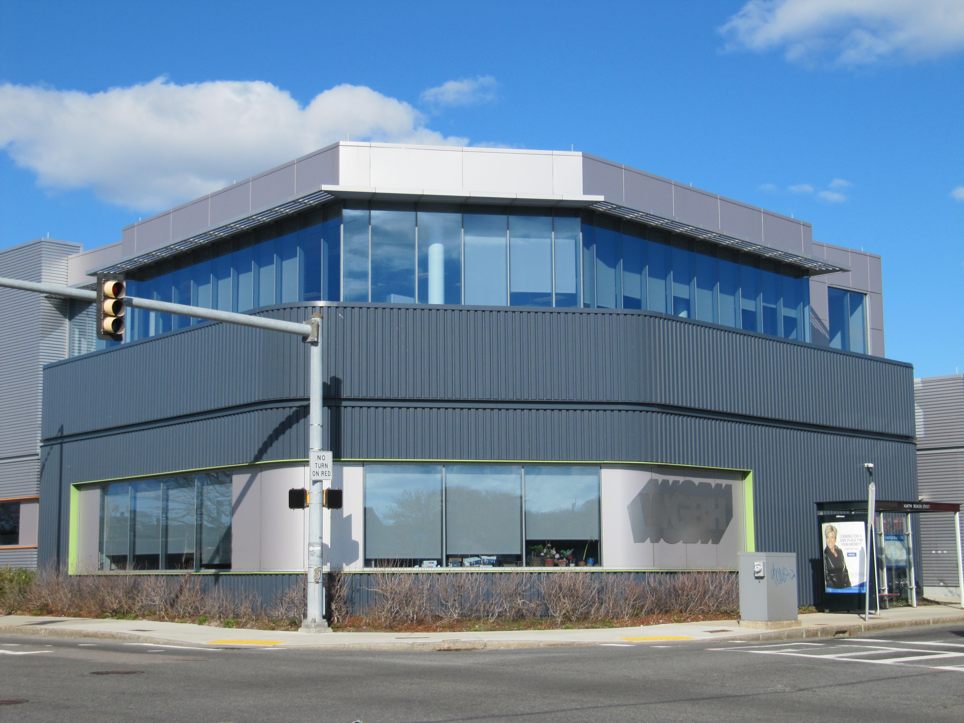 WGBH studio complex, 1 Guest Street, Brighton/Boston - seen from Market Street/North Beacon Street crossing. The radio program "The World" is produced in this part of the building, see the sign in the left ground floor window.